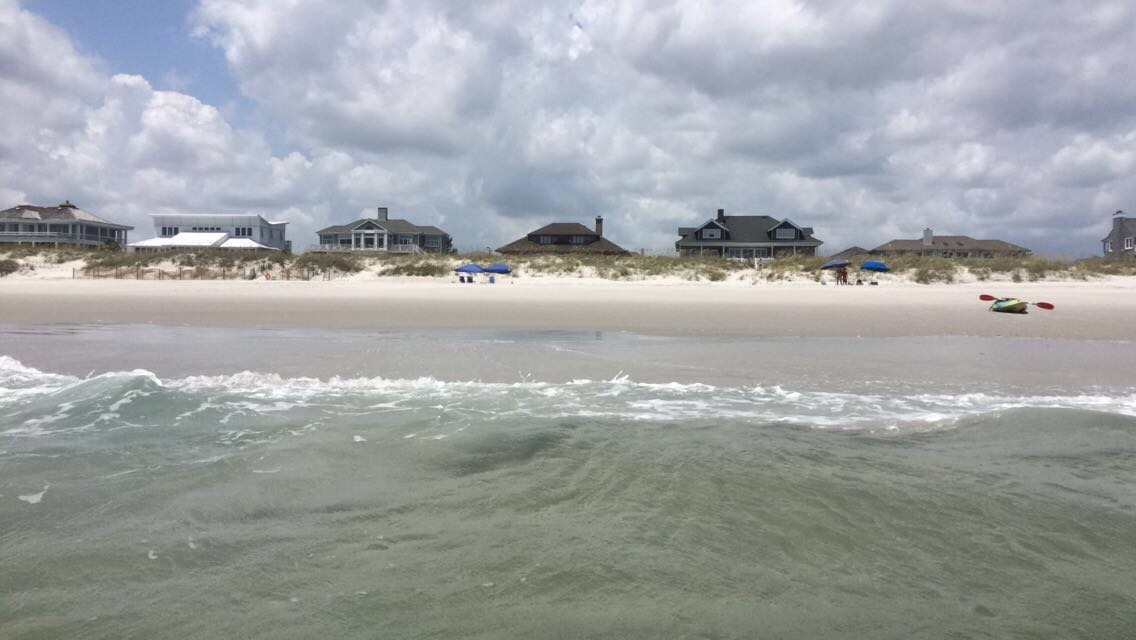 Fron row houses